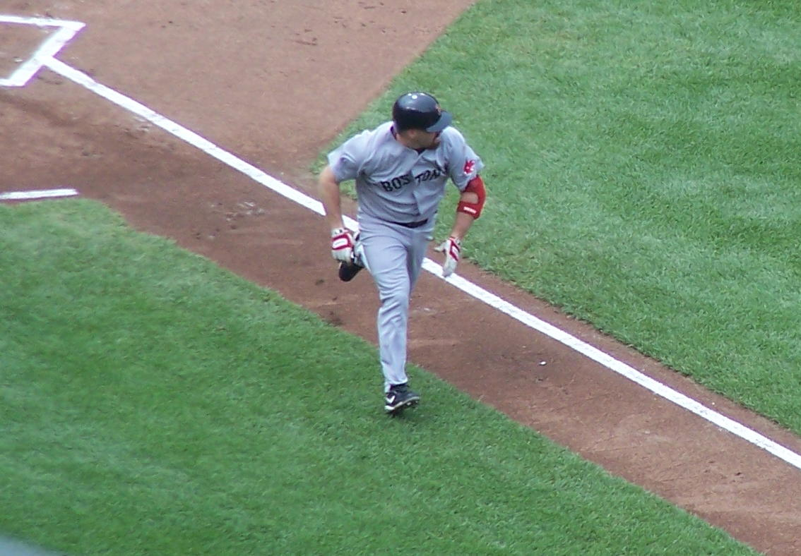 Kevin Youkilis looks on as his base hit passes through the left side of the Baltimore Orioles infield.